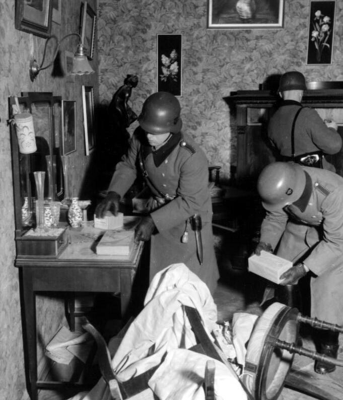 Warsaw during World War II